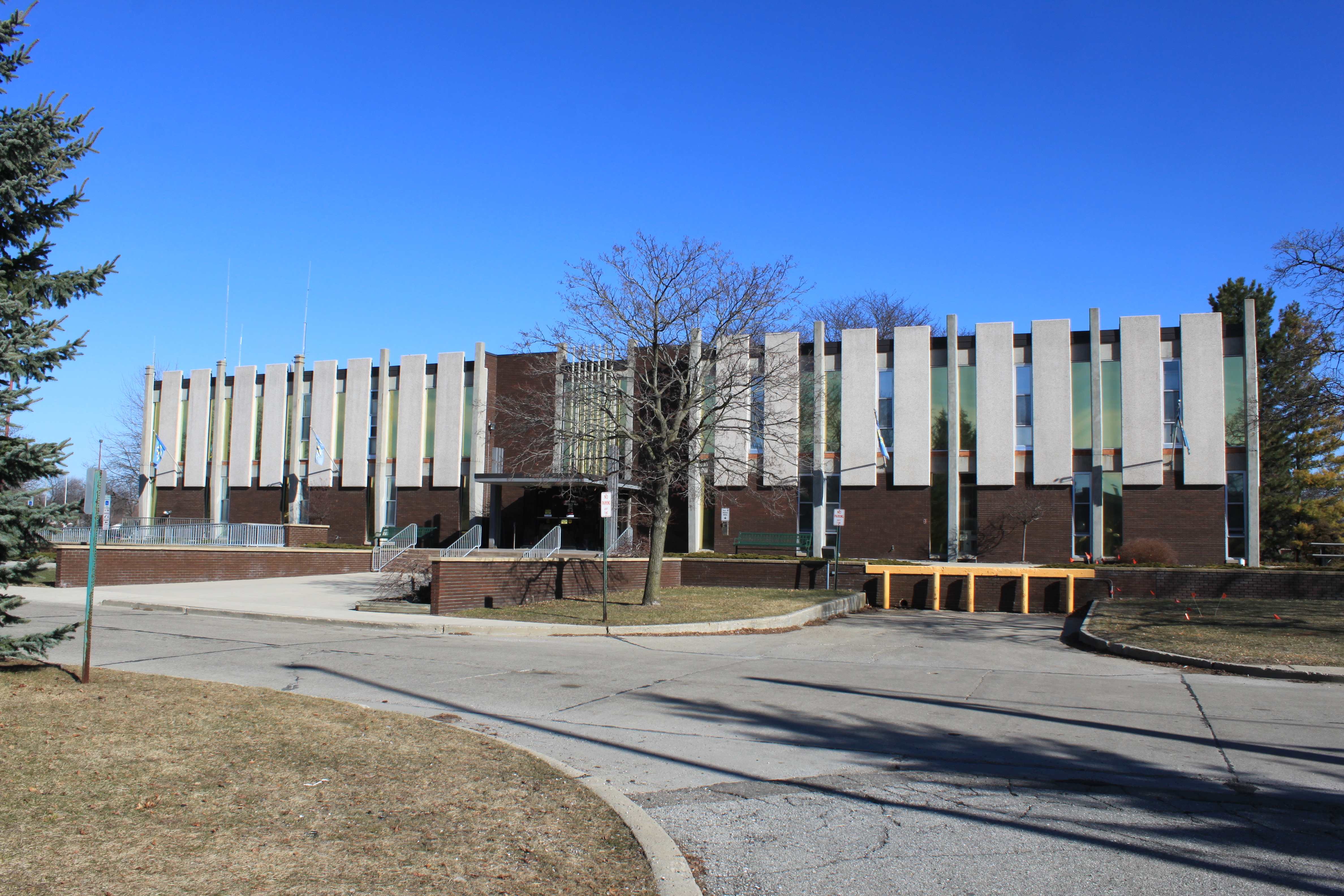 Westland Michigan City Hall, 36601 Ford Road